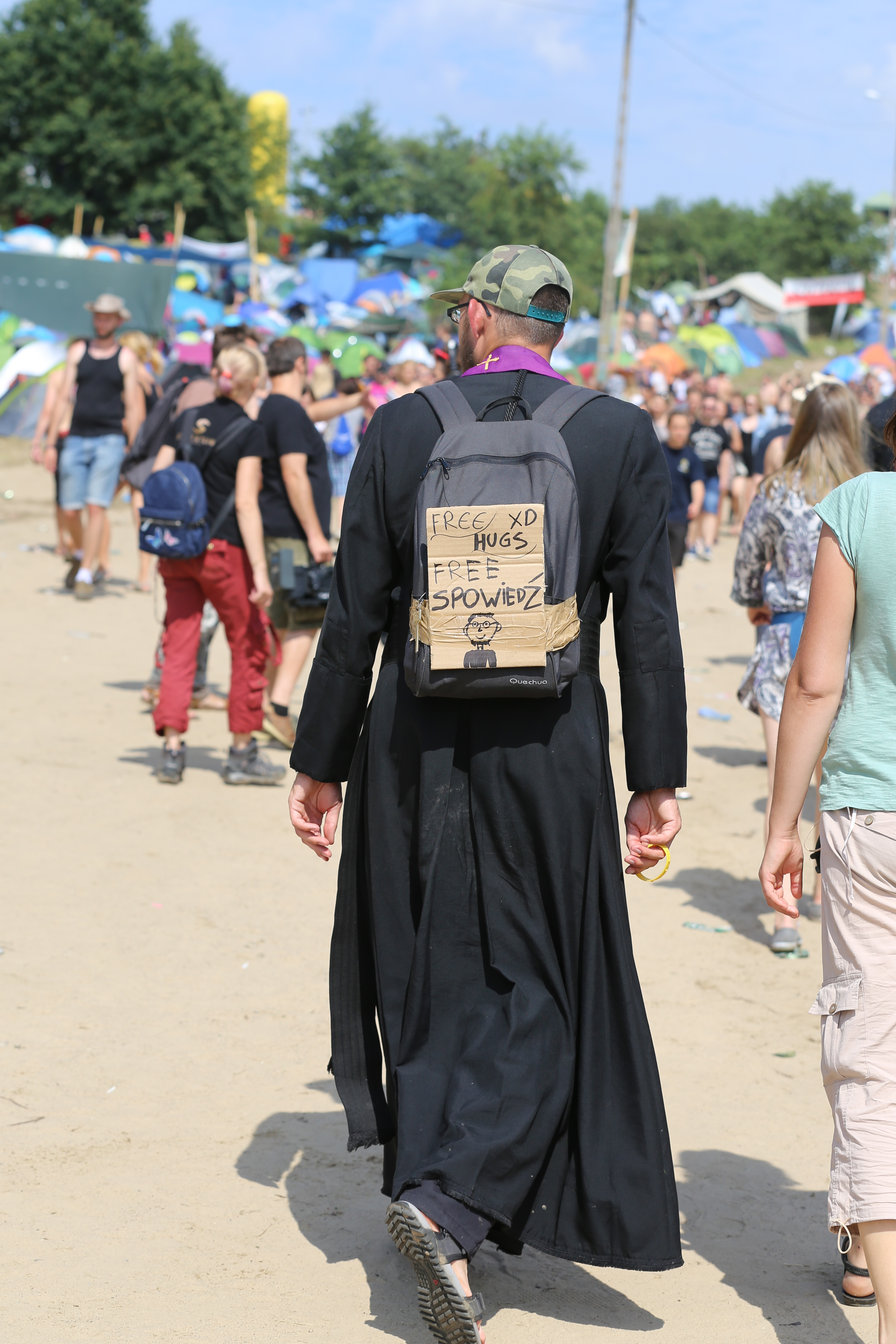 Przystanek Woodstock in 2017.